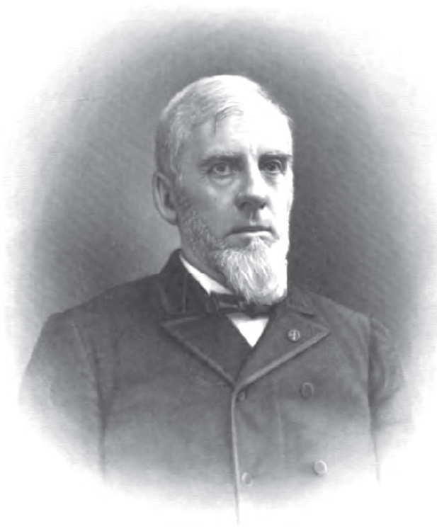 An Ohio General and politician named Benjamin Rush Cowen